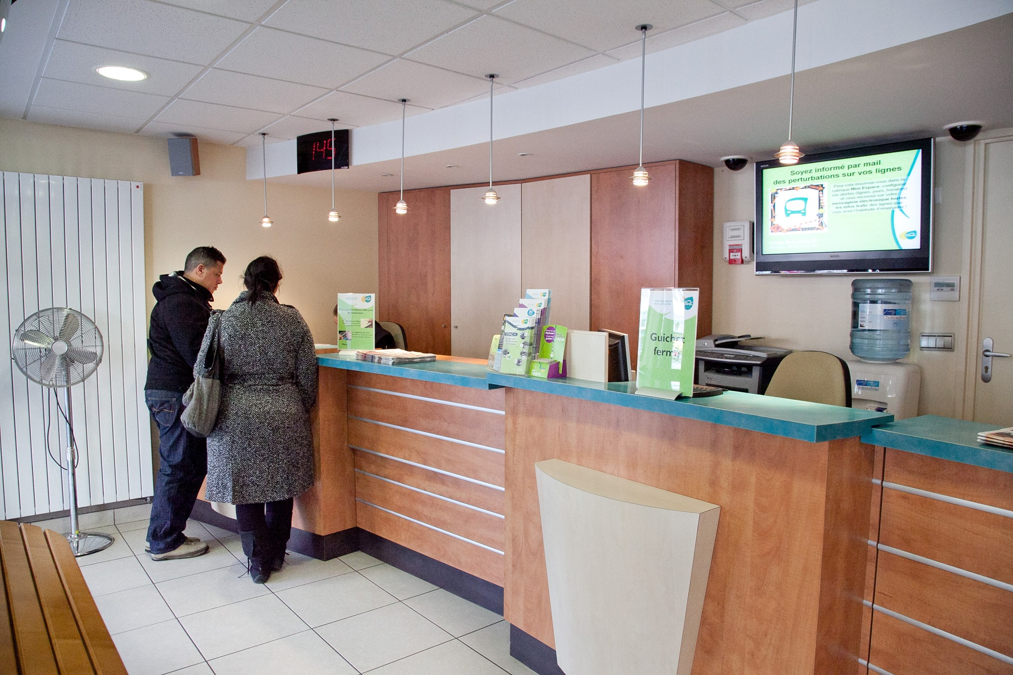 The interior of the sales agency of the Stac in Chambéry in 2011.